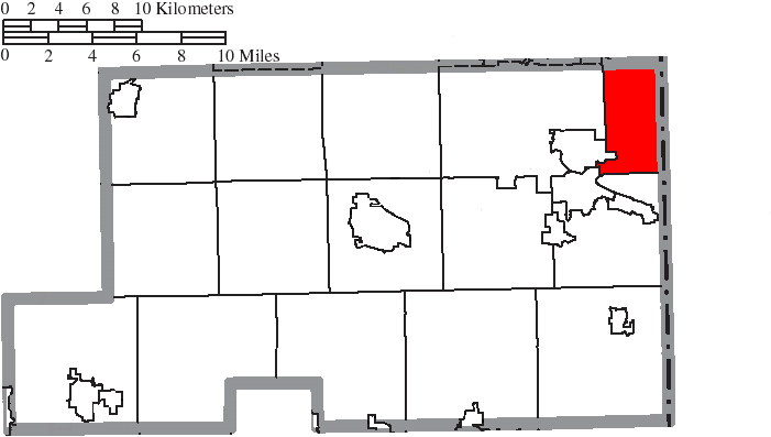 Map of the municipal and township boundaries of Mahoning County, Ohio, United States, as of the 2000 census, with the location of Coitsville Township highlighted. Township borders are shown only in unincorporated areas in order to differentiate incorporated and unincorporated areas more clearly.